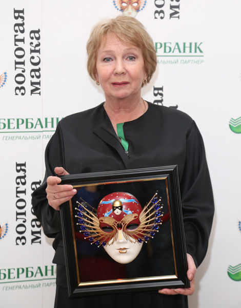 Era Ziganshina 2014 ph. Gennadiy Avramenko